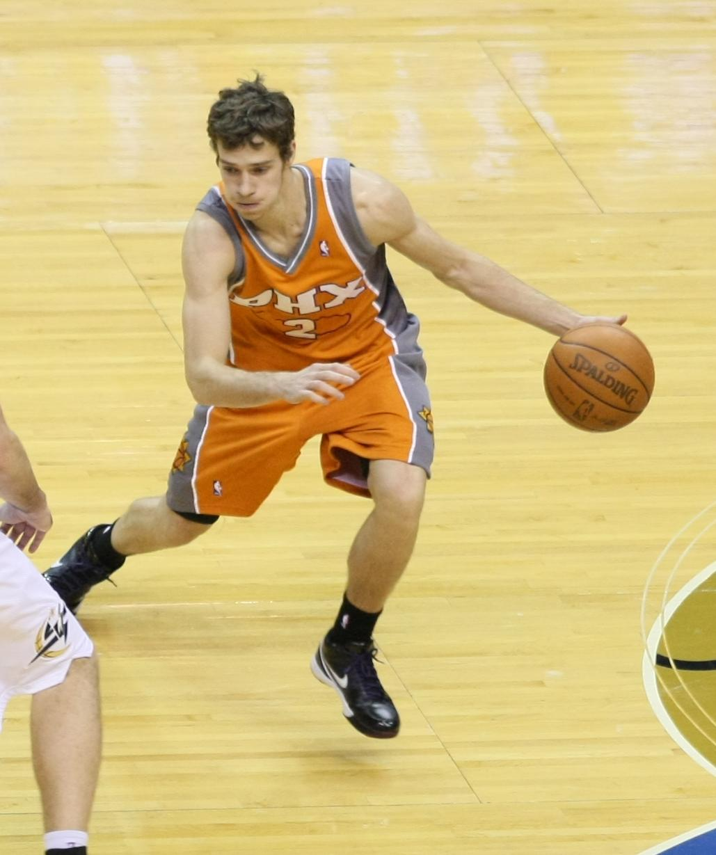 Goran Dragic playing with the Phoenix Suns